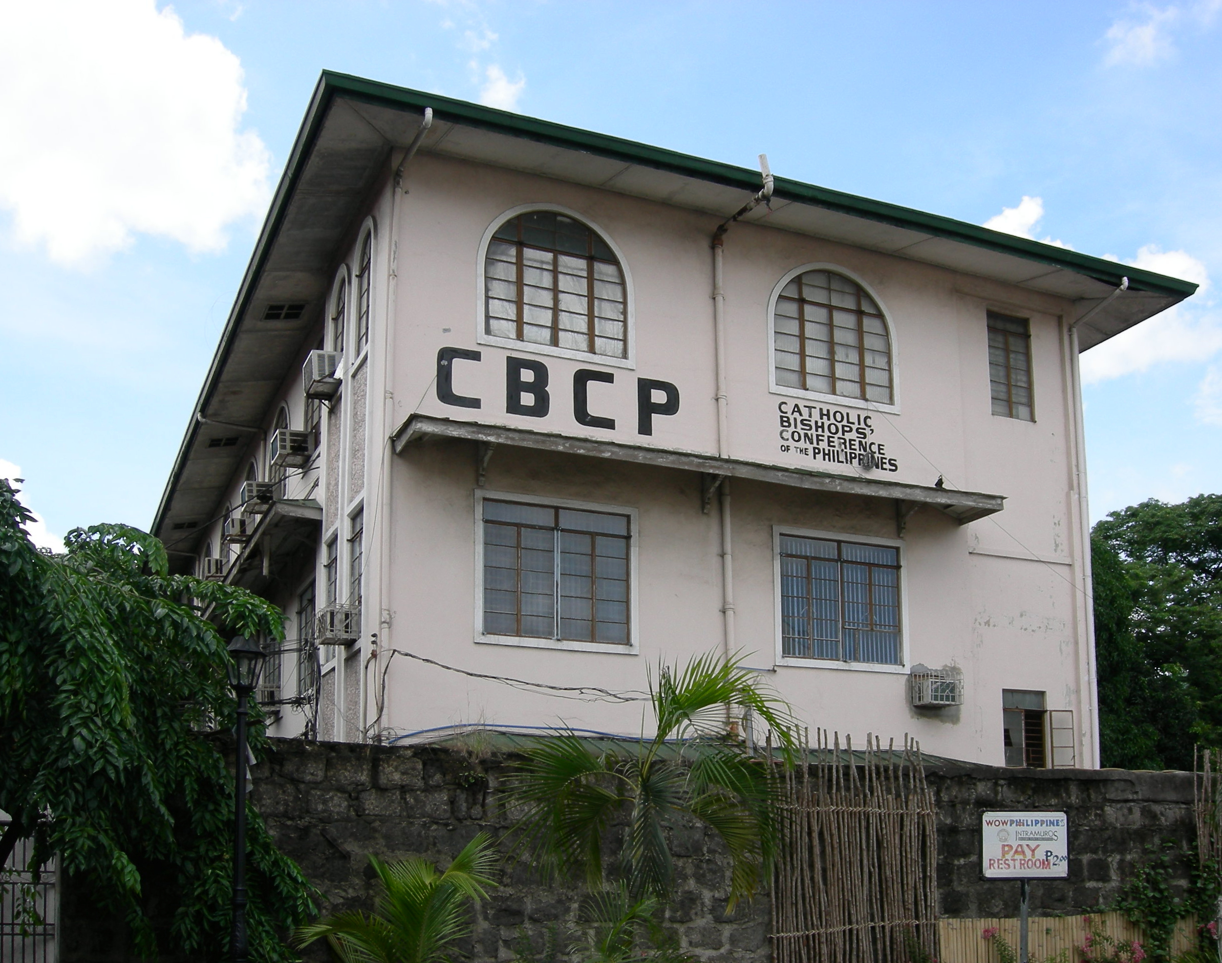 The headquarters of the Catholic Bishops' Conference of the Philippines located in 470 Gen Luna St., Intramuros, Manila.